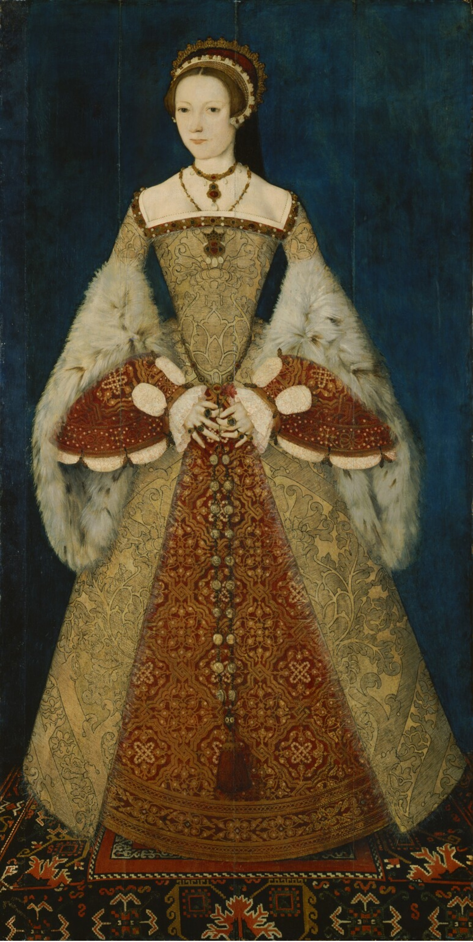 A portrait of Queen Catherine Parr (1512–1548), sixth and last wife of Henry VIII of England attributed to Master John. Formerly thought to be Lady Jane Grey.